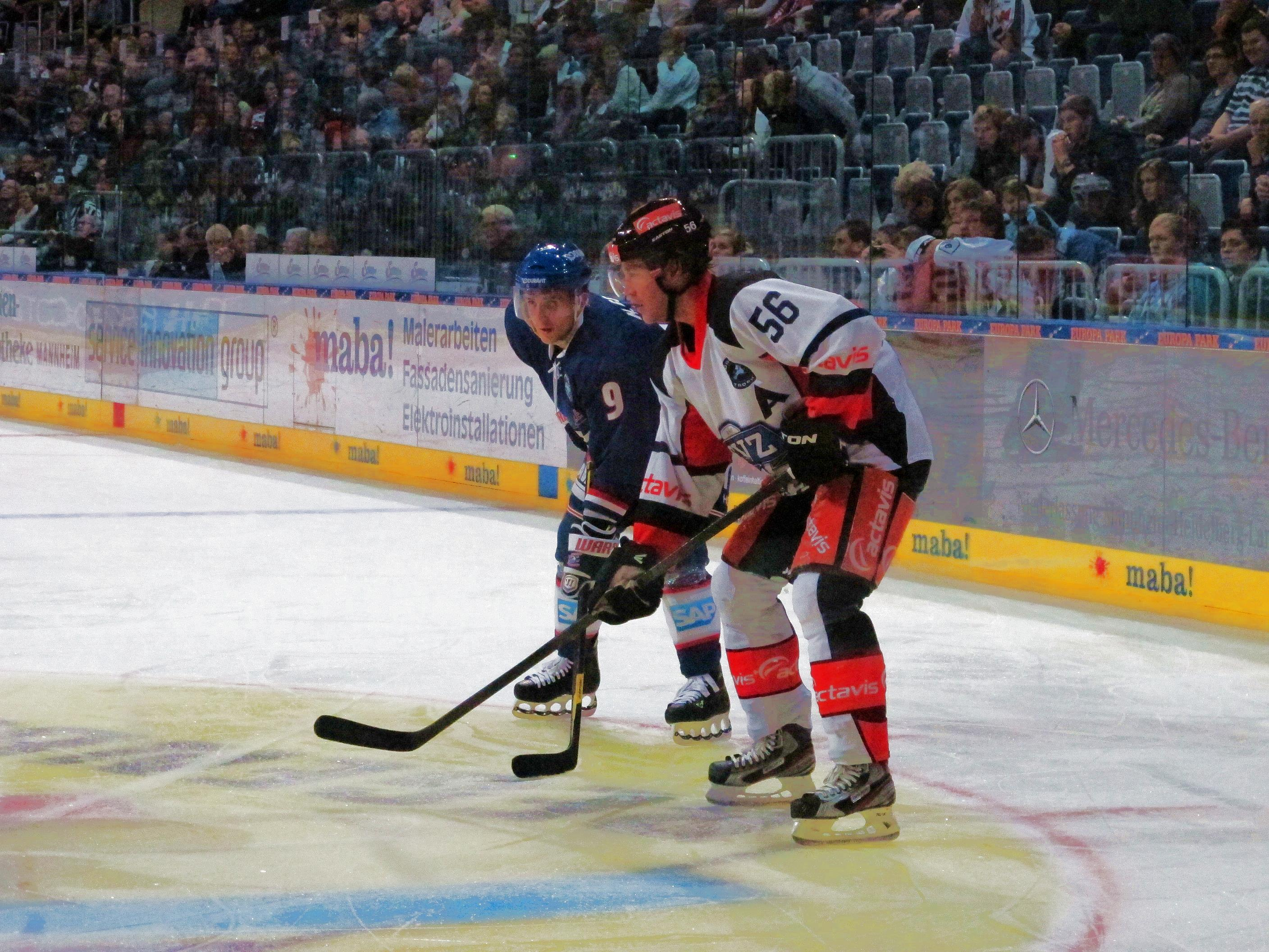 Marcel Goc (left), ice hockey player from Germany, forward; Timo Helbling, ice hockey player form Switzerland, defenseman